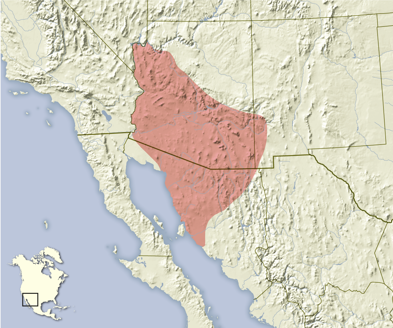 Distribution map of Harris's antelope squirrel